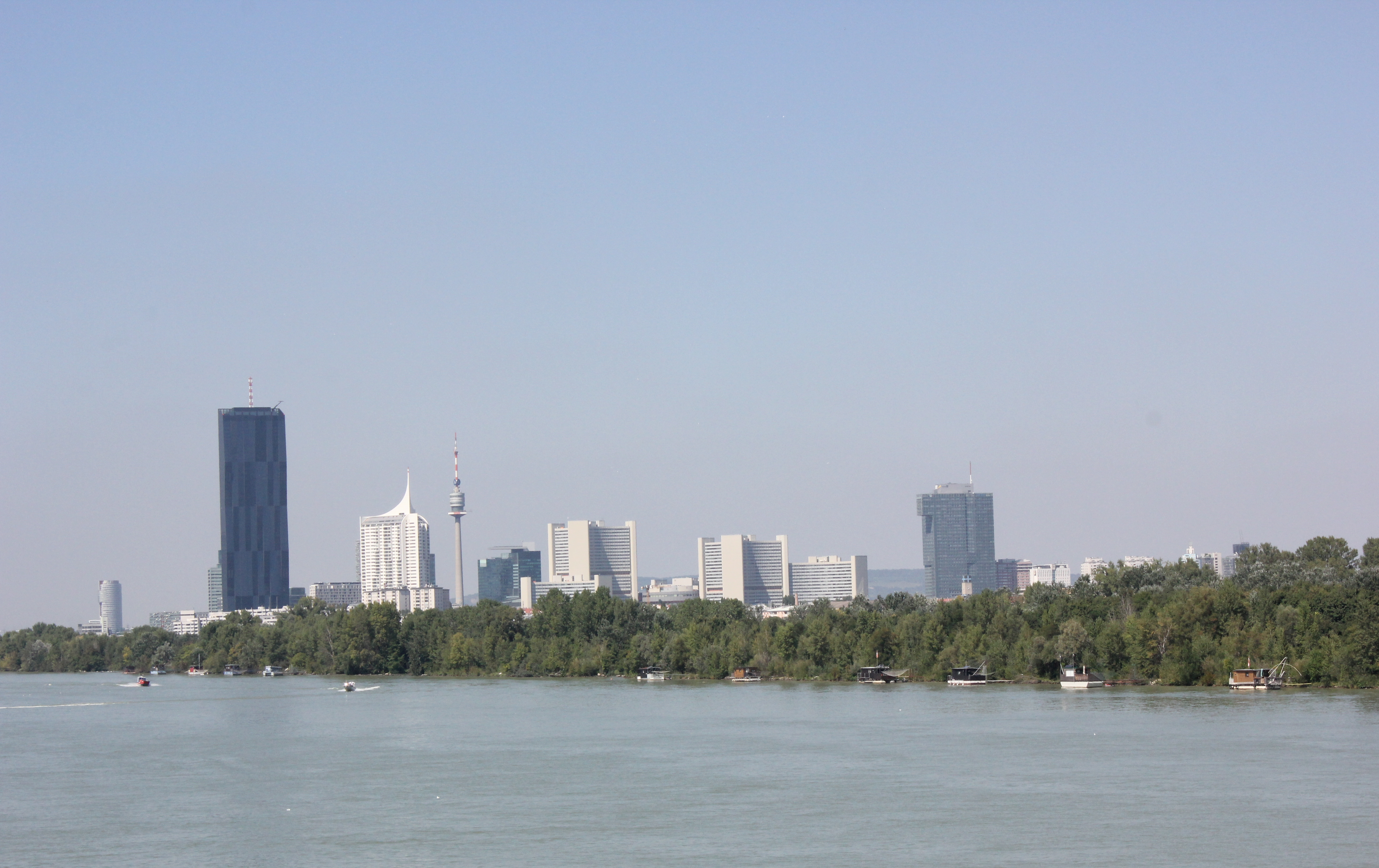 Vienna - view from Donaumarina U2 metro station